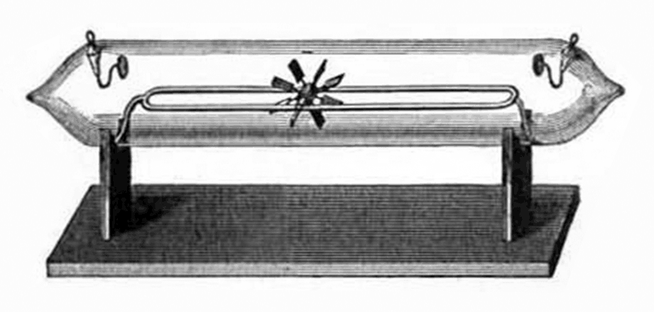 Drawing of an experimental Crookes tube with a paddlewheel inside, built by William Crookes around 1879. It was called the 'railway' tube, since as the paddlewheel turned it slowly rolled down the rails from one end of the tube to the other. The purpose of the tube was to determine whether cathode rays had mass. The tube was evacuated to a pressure of about 10-6 to 10-7 atmosphere. When the electrodes at each end of the tube were attached to a source of high voltage DC electricity, a beam of cathode rays (electrons) passed down the tube from the cathode to the anode. The upper paddles of the light paddlewheel were in the path of the beam. Crookes found that when the voltage was applied the paddlewheel turned in a direction away from the cathode. He concluded that the momentum of the rays was providing the force which turned the wheel, indicating that cathode rays had mass. However in 1903, J. J. Thompson showed that the motion of the paddlewheel was actually caused by the radiometer effect. When the cathode rays struck the paddle, they heated it. The air next to the hot side of the paddle expanded, pushing the paddle away. All this experiment really showed was that cathode rays could heat objects. Alterations to image: removed figure number and yellowish tint to page, converted to 32 greyscale PNG.